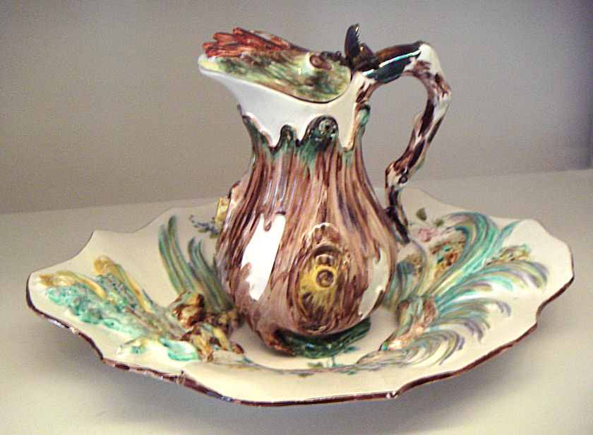 Washstand set (water jug and basin), before 1751, Chantilly porcelain, Musée des Arts Décoratives, Paris, France.